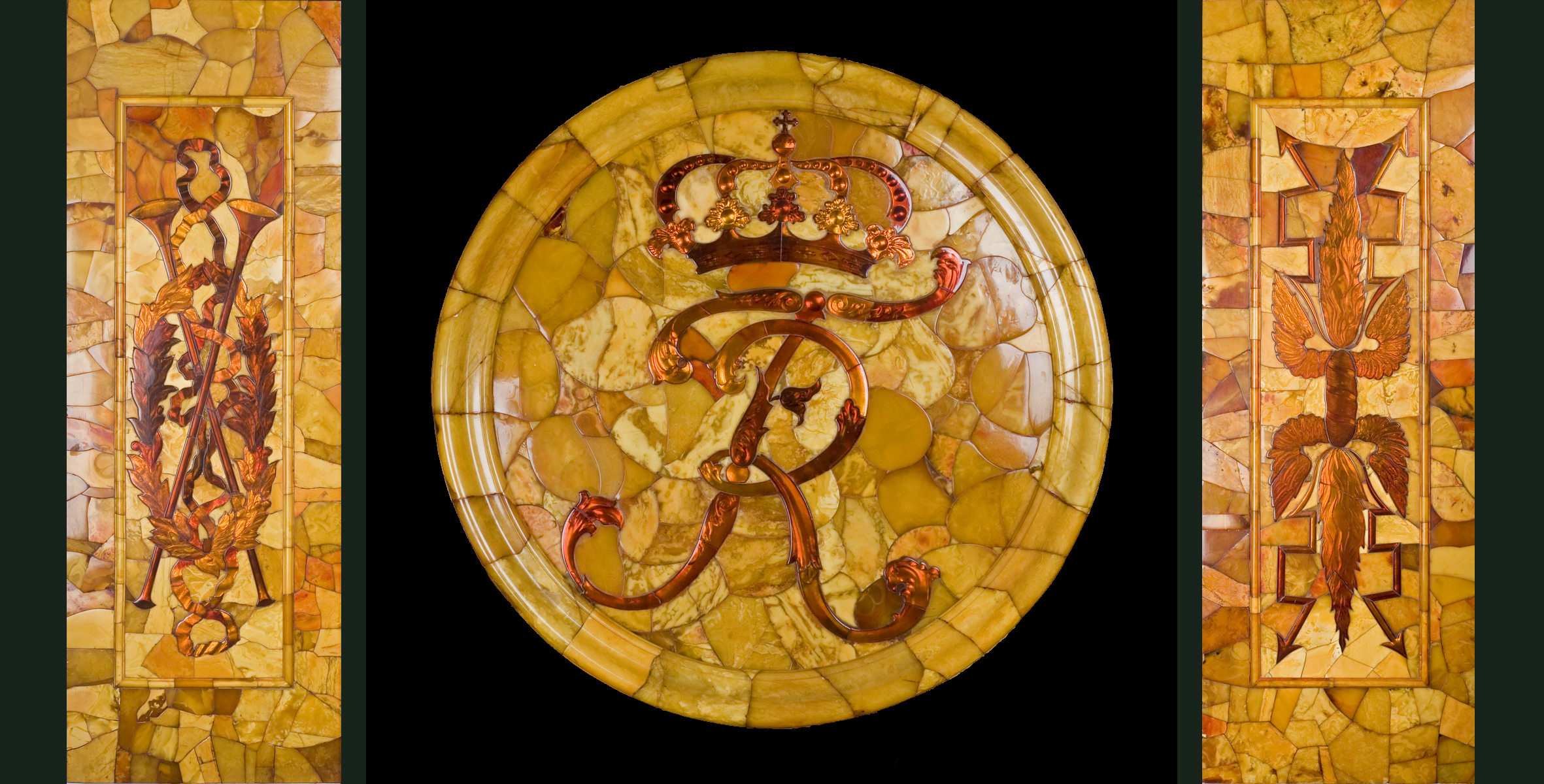 Fragment of the lower panel of the Amber Room. Scientific reconstruction: 1979. Khozatsky G. S. (author of the project), Yertsev V. P., Yertsev G. P., Yertseva M. G., Zhuravlev A. A., Vanin A. P., Grigorjeva L. A., Leningrad. Original 18h century. Berlin - St. Peterburg. Kaliningrad Amber Museum